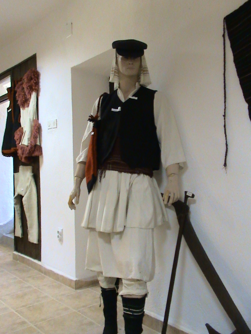 Mariovo folclore costume.